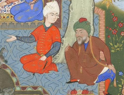 Miniature illustration from the Haft Awrang of Jami, in the story A Father Advises his Son About Love.